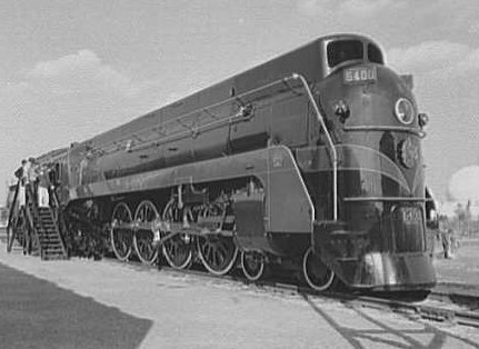 1939 New York World's Fair, railroad exhibit, modern locomotives. Canadian National Railways U-4-a class 4-8-4 Northern 6400